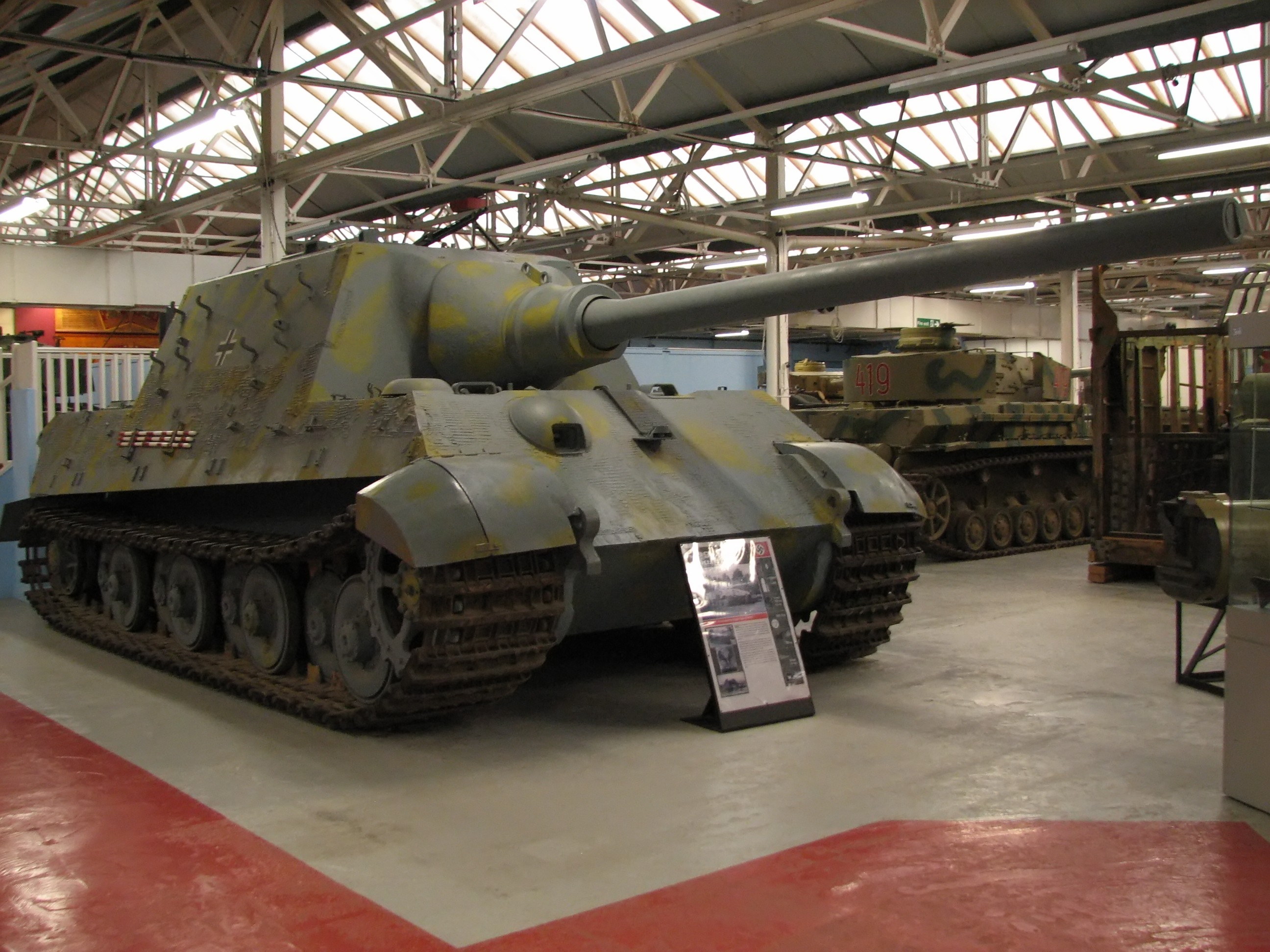 Jagdtiger at Bovington Tank Museum